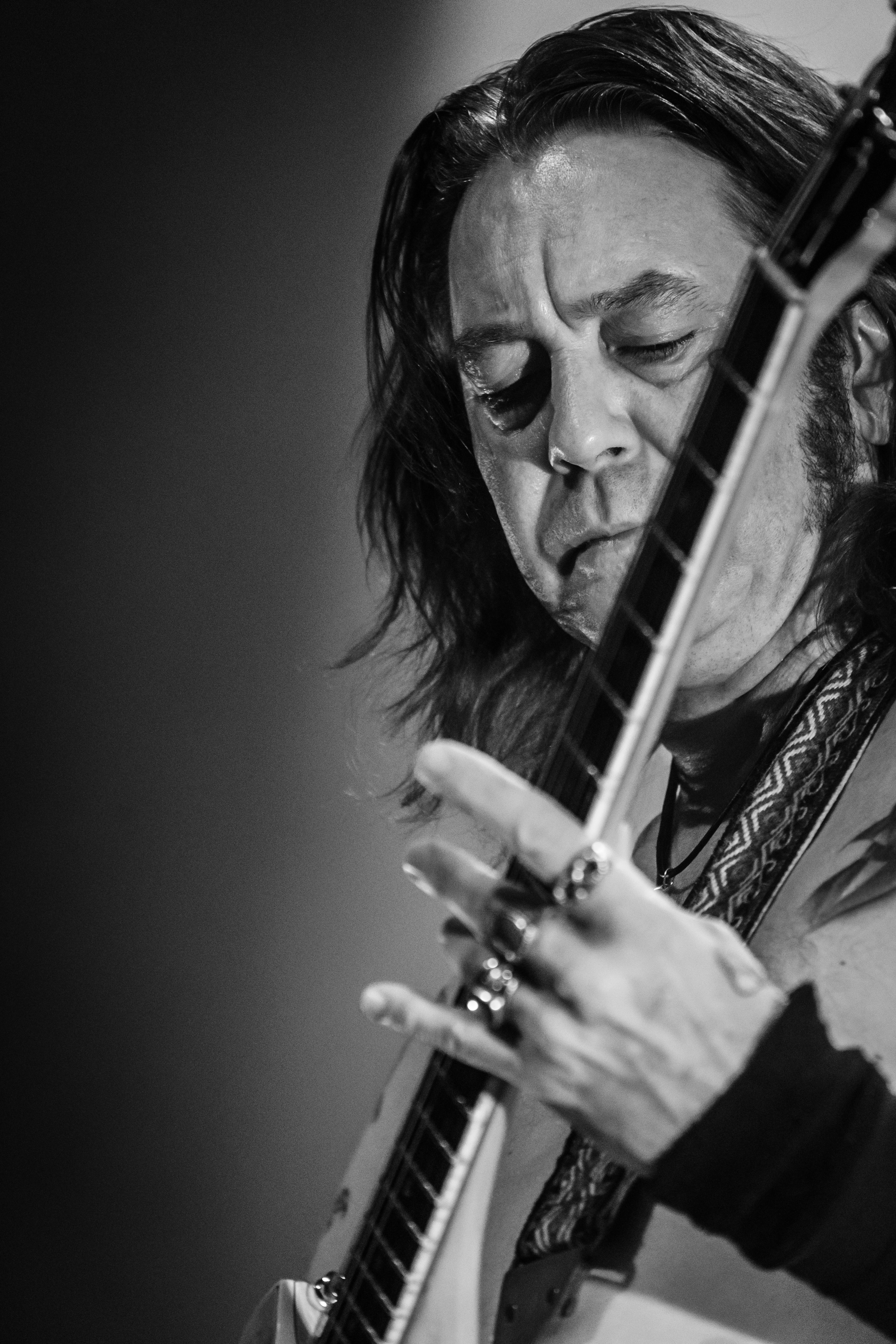 Sleep performing live at Roadburn Festivla 2019